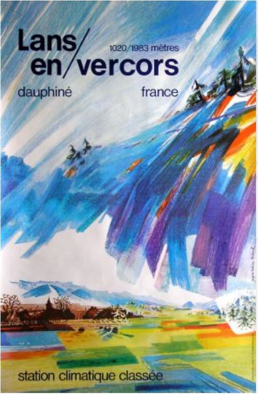 Poster for tourism promotion in Lans-en-Vercors. The poster is largely stylized with colors. The bottom of the poster face a village off with the foreground farmland.